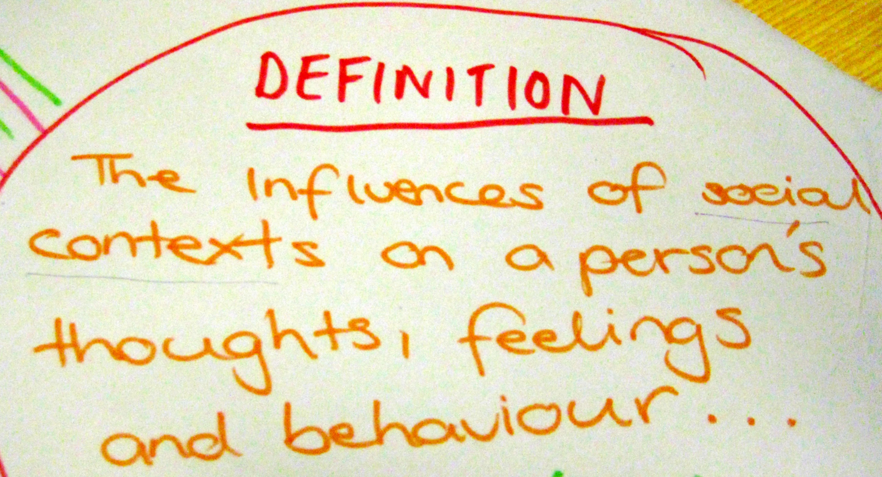 A photograph of a hand-written, student-generated definition of Social psychology.